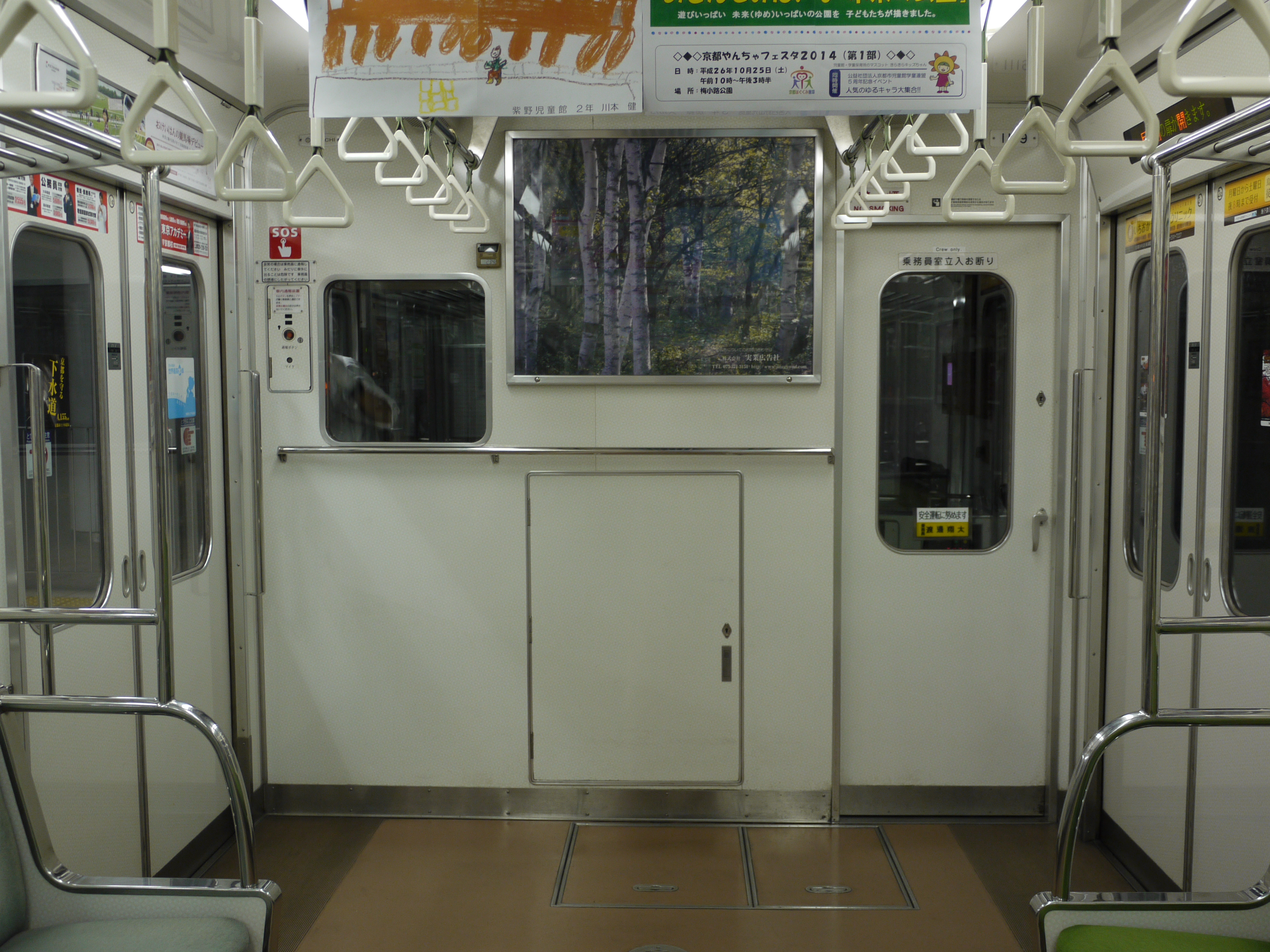 A wall between driver cabin and passenger space on Kyoto subway 1119.